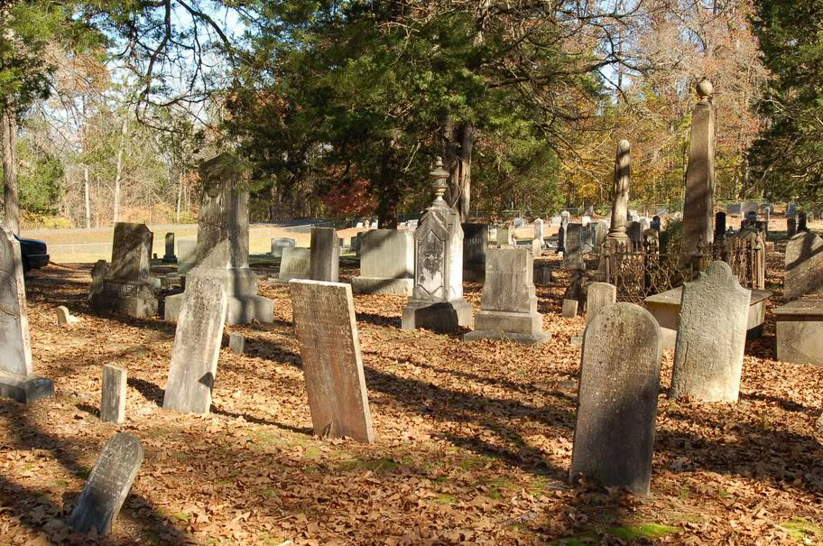 Long Cane A.R.P. Churchyard cemetery